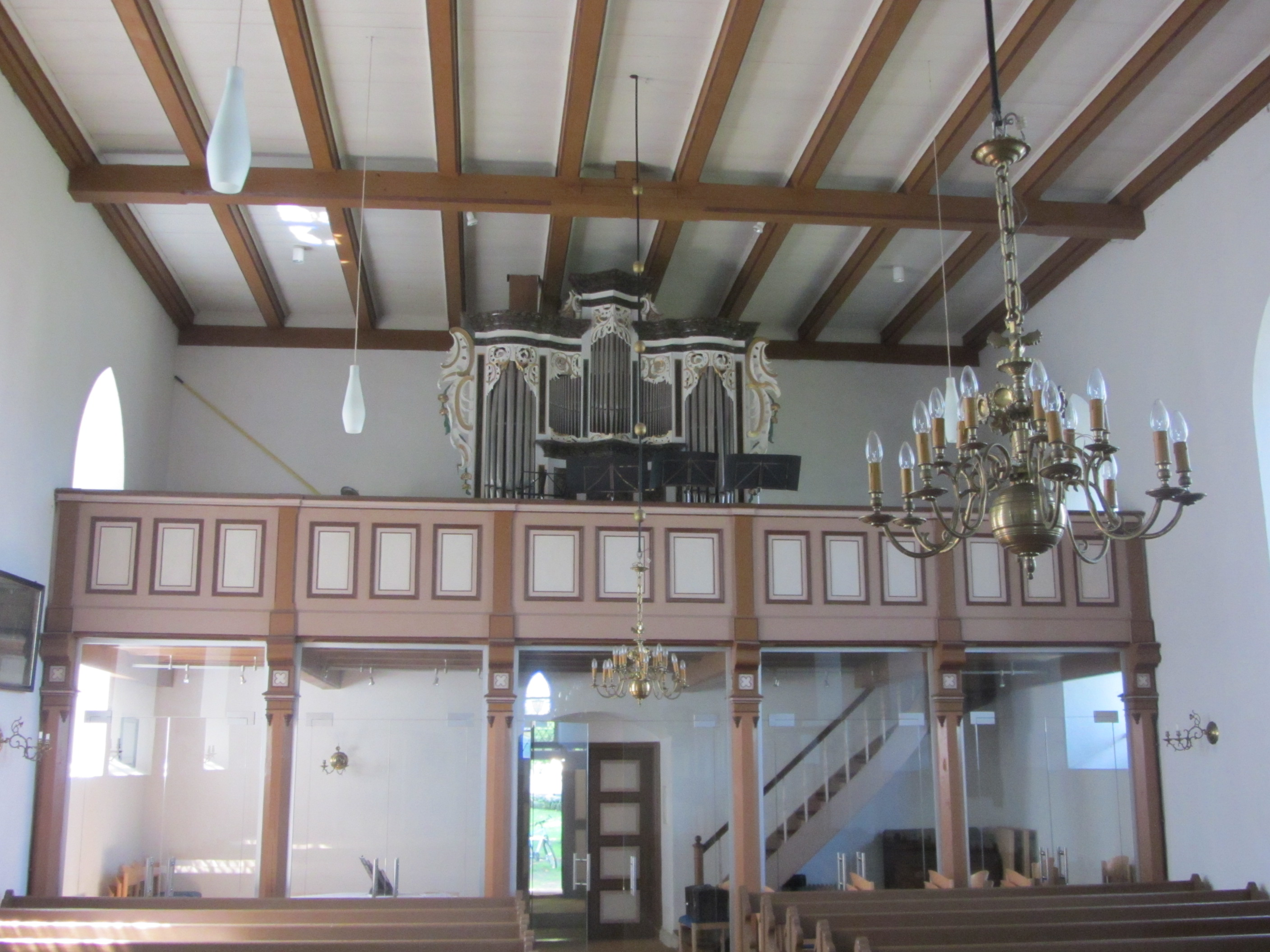 Pipe organ in the church in Stolpe auf Usedom, district Vorpommern-Greifswald, Mecklenburg-Vorpommern, Germany